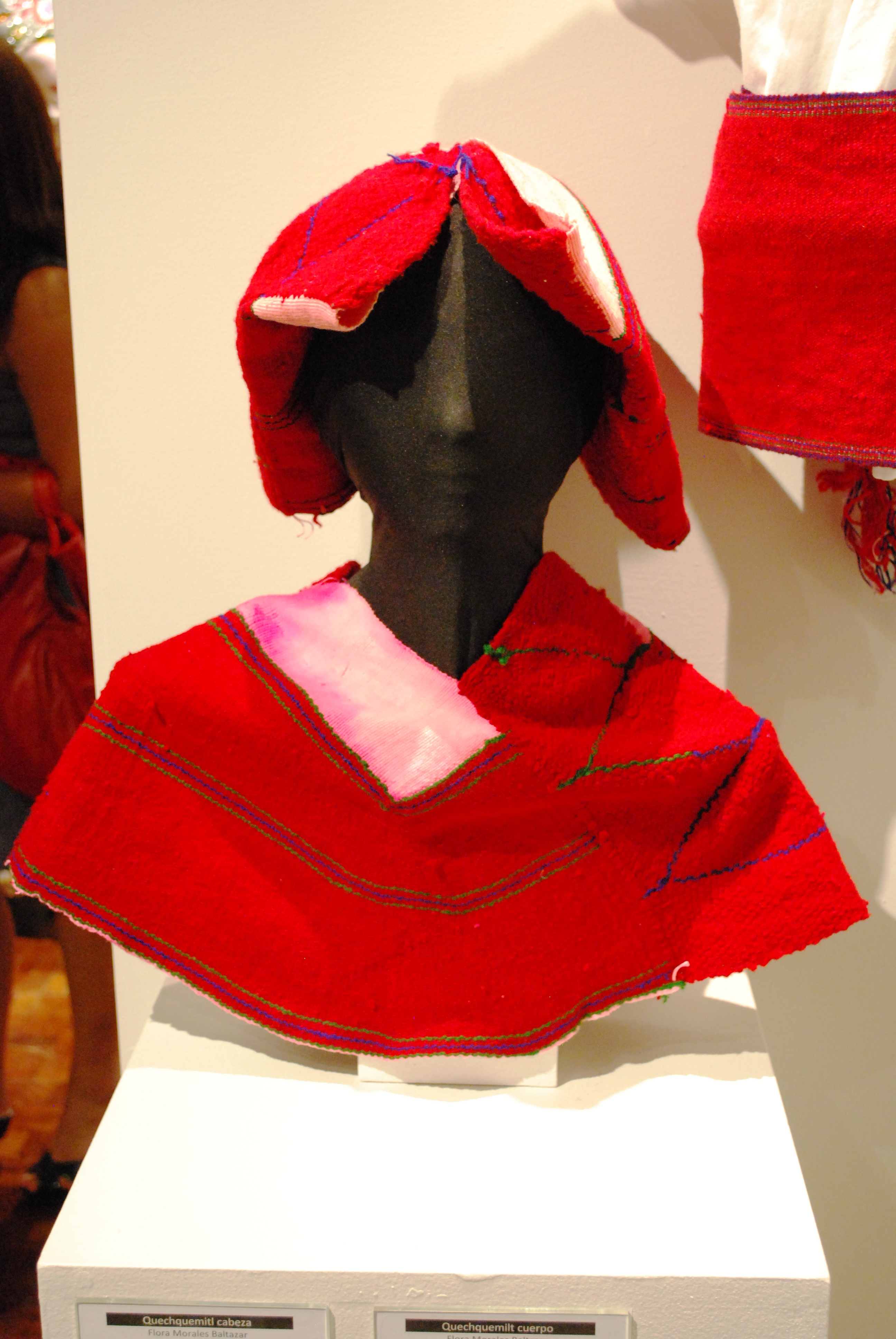 Two ways of wearing a garment called a quechquemitl, one on the head and the other on the shoulders. Both by Flores Morales Baltazar of Santa Ana Hueytlalpan, Hidalgo as part of a temporary exhibit dedicated to the state at the Museo de Arte Popular, Mexico City